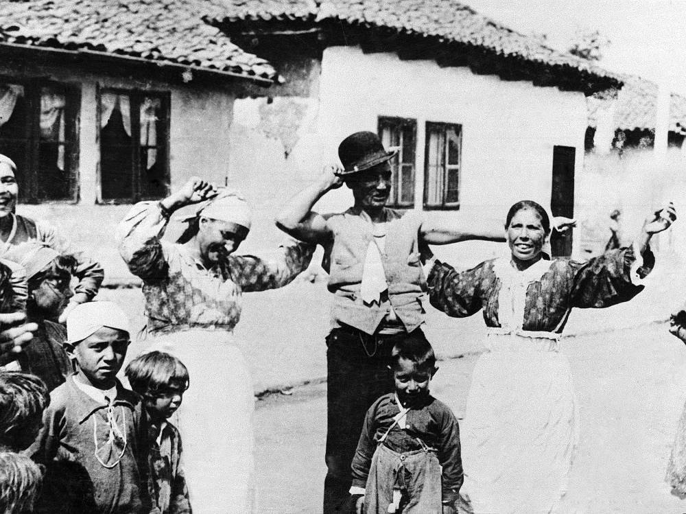 Roma wedding in Sofia. Unknown photographer.